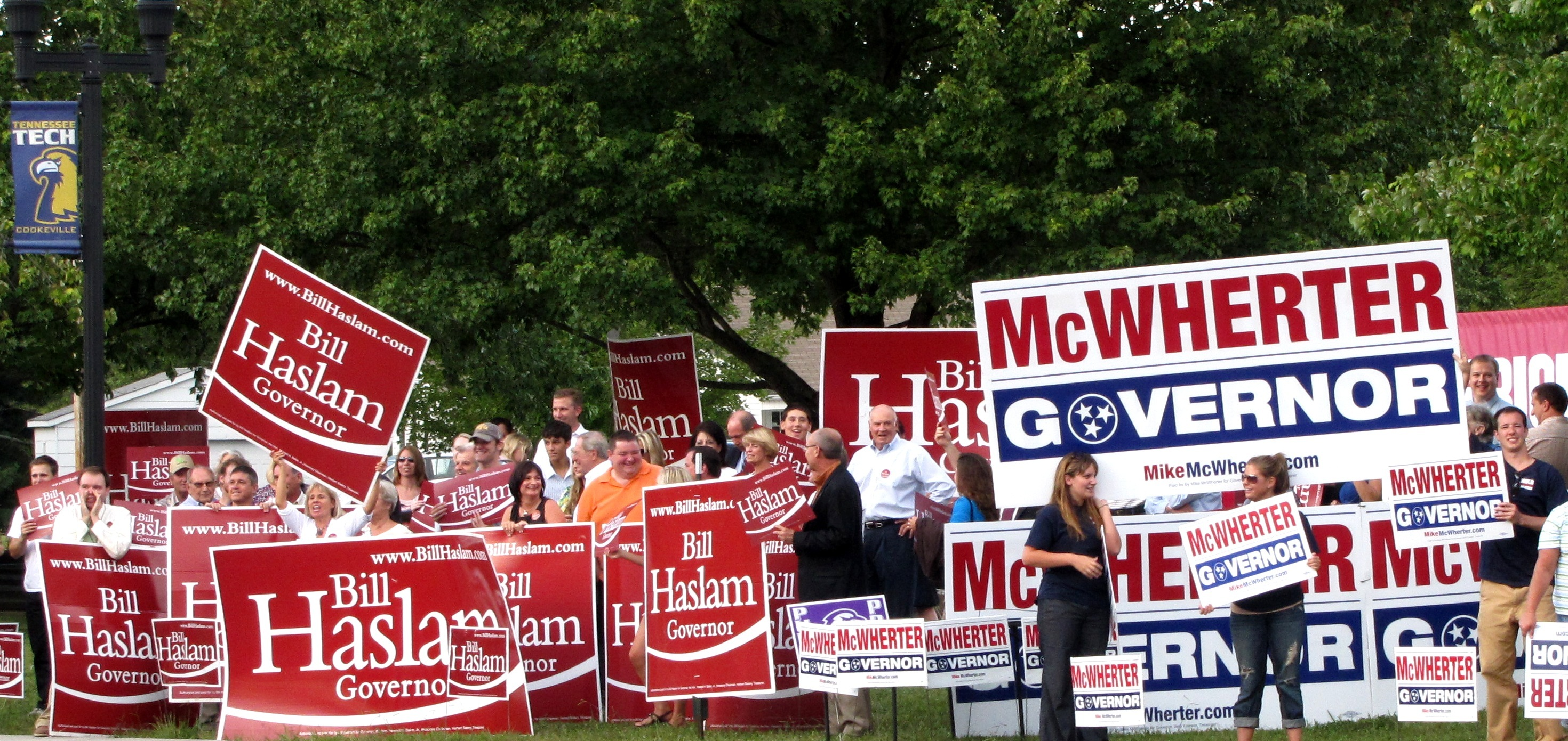 Supporters of 2010 Tennessee gubernatorial candidates Bill Haslam and Mike McWherter hold simultaneous rallies before the Highlands Town Hall debate at Tennessee Tech University.